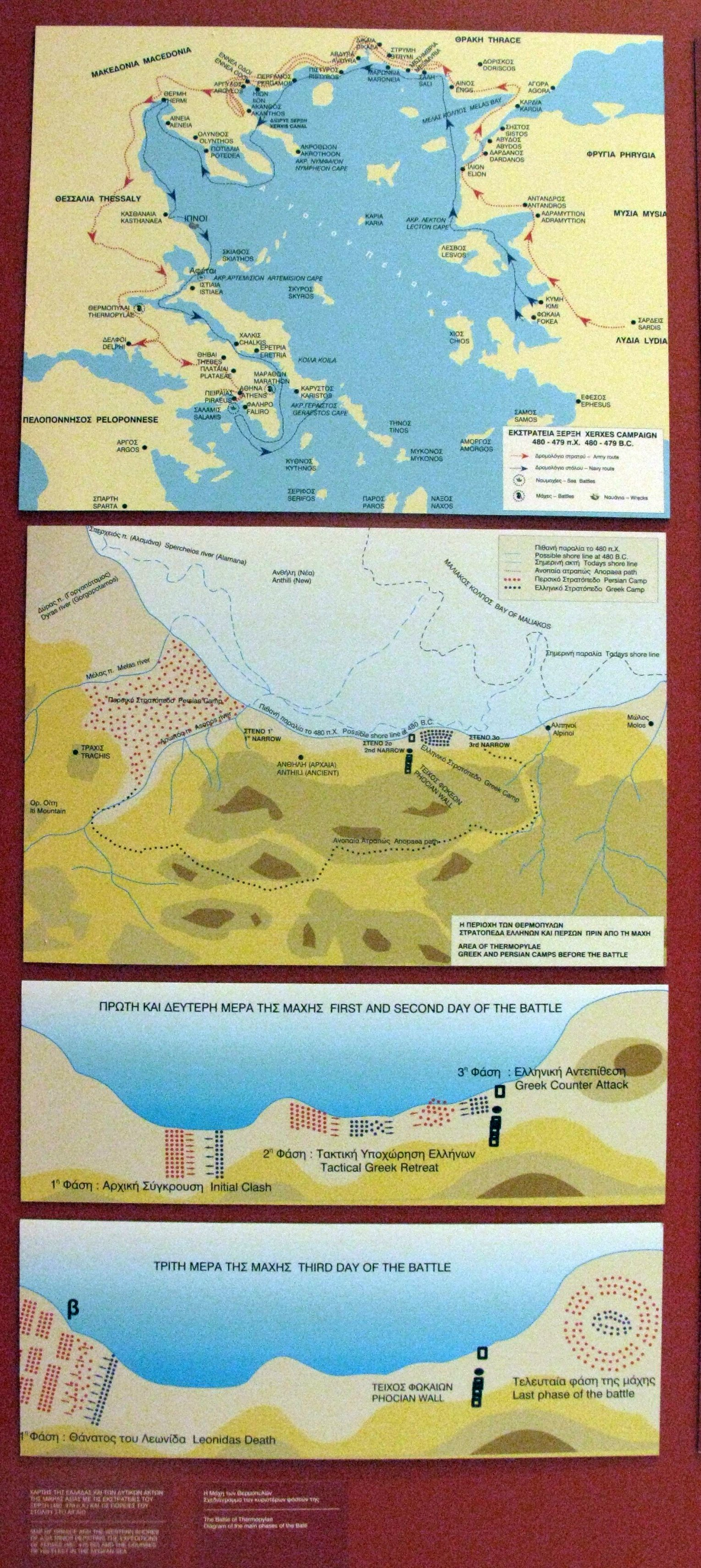 Exhibition "Democracy and the Battle of Marathon" 23 Oct. 2010 - 1 Nov. 2010, Zappeio, Athens, Greece.